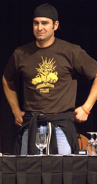 Tory Belleci from MythBusters in Dragon Con 2006